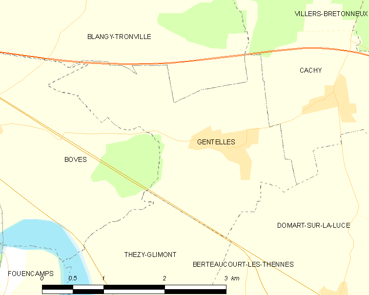 Map of French municipality Gentelles